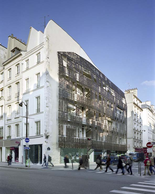 Logements sociaux rue de Turenne, Chartier-Corbasson, Paris, 2009